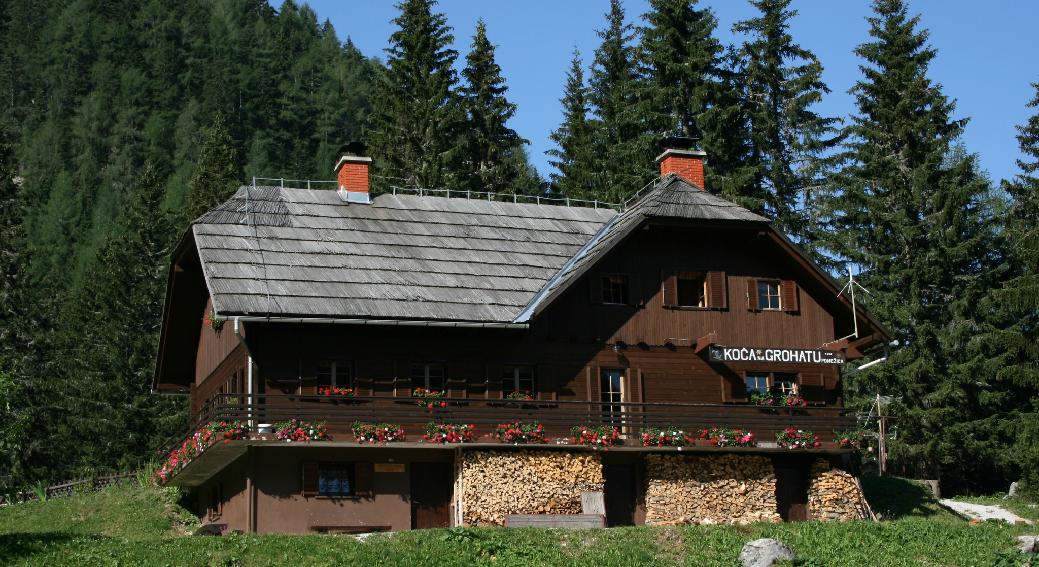 Hut on Grohot meadow under mt. Raduha, Slovenia